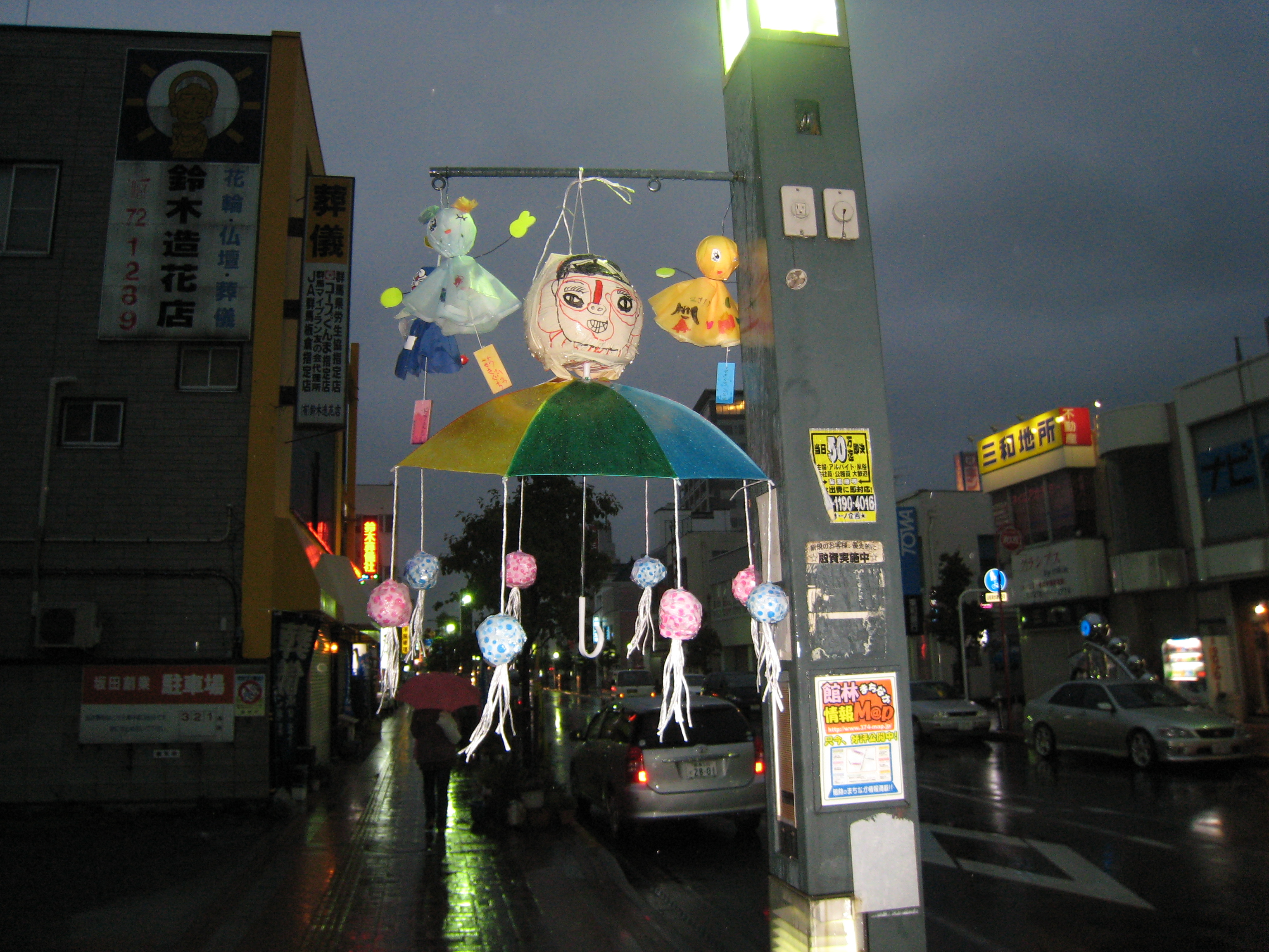 てるてる坊主、Teruteru-bozu(dolls hung outside in the hope of fine weather) in Tatebayashi ,Gunma pref,Japan